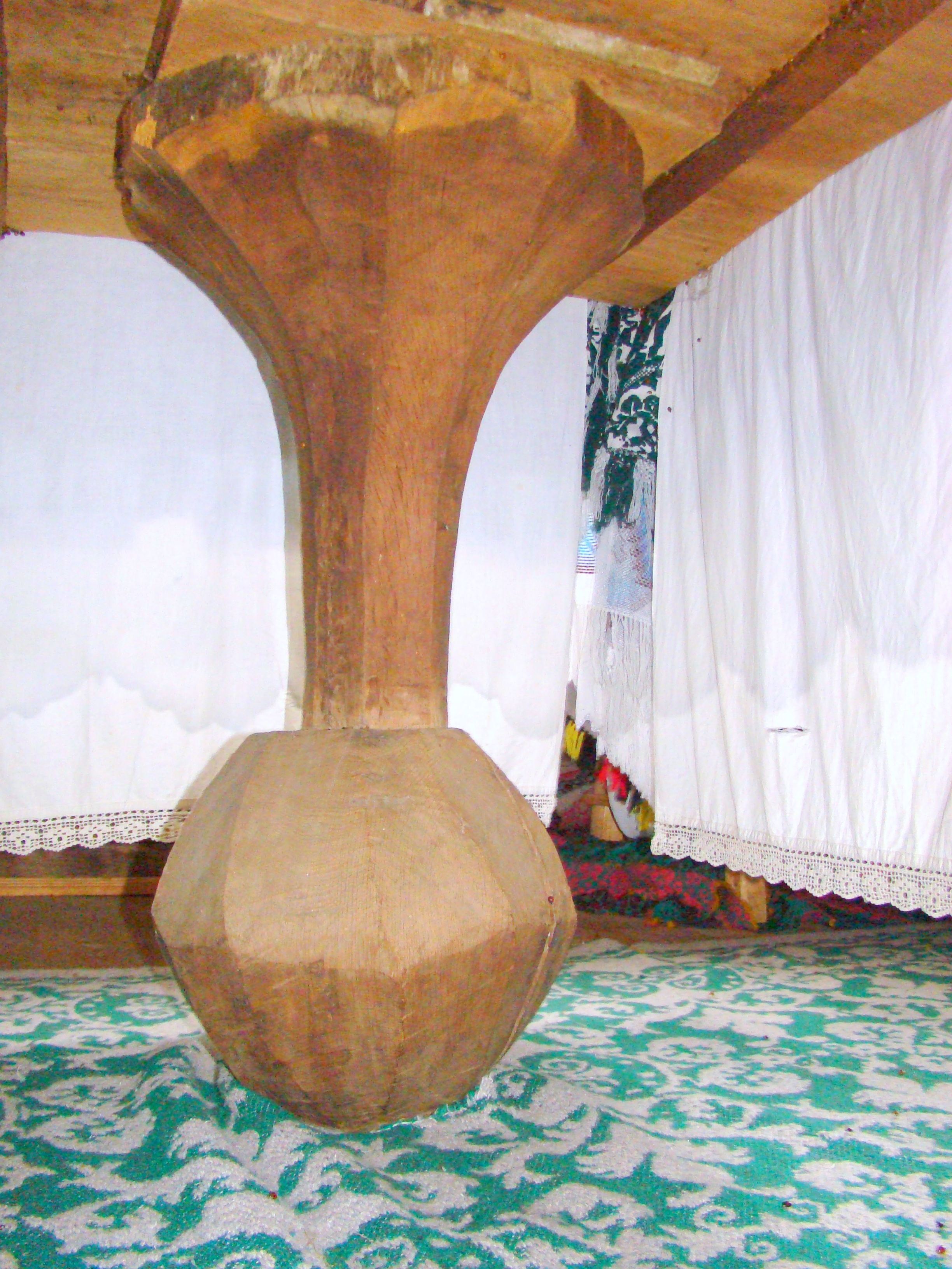 Wooden church in Micănești, Hunedoara county